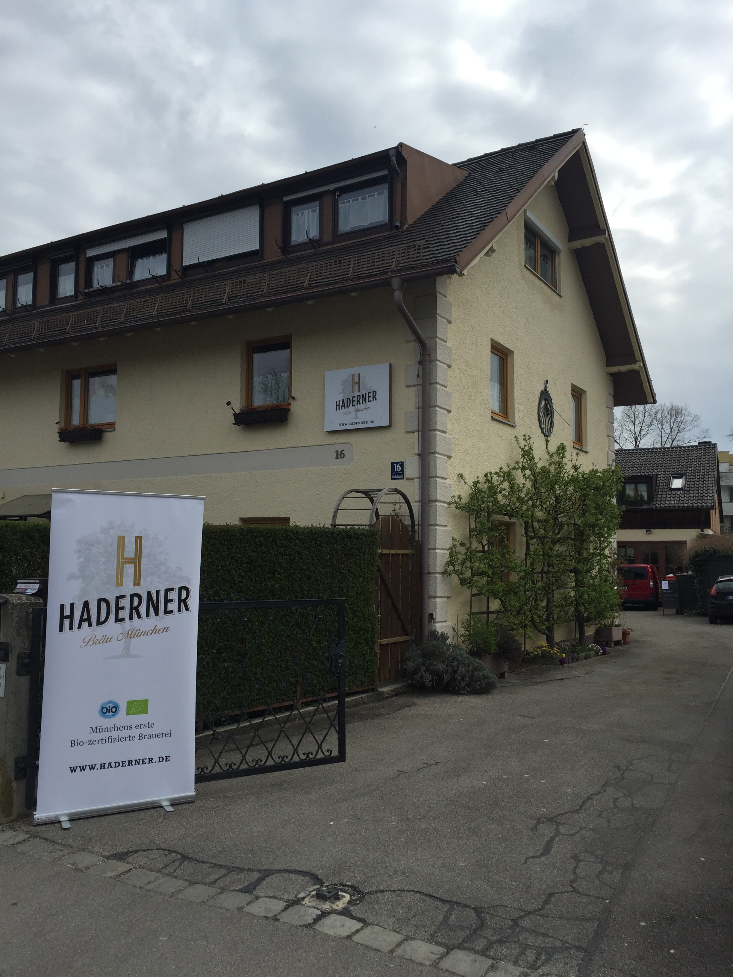 Haderner Bräu, Munich's first organic brewery